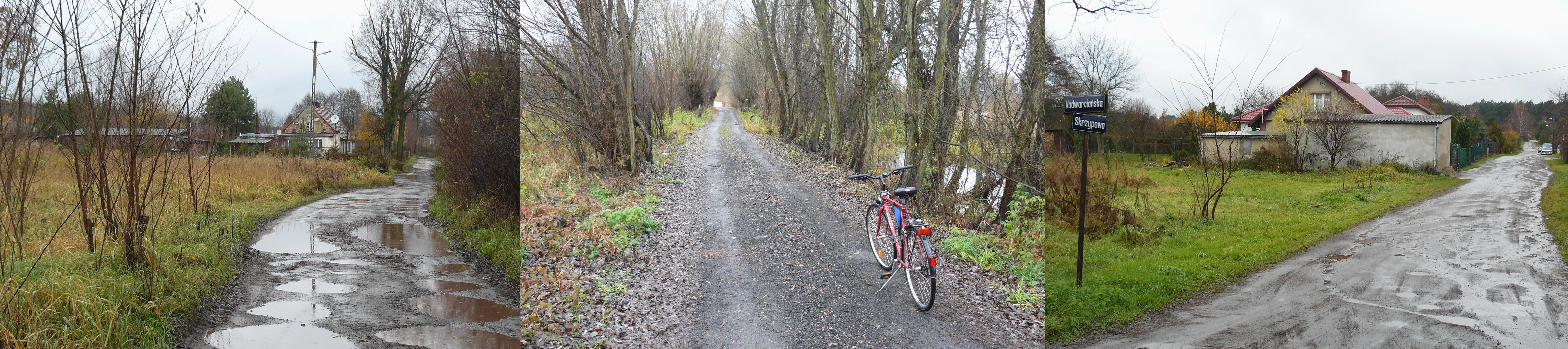 Nowa Wieś Dolna - District of Poznań, Poland.